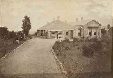 Auldana Winery Auldana homestead built in 1852 by Patrick Auld and occupied by the family until 1888. Mr. & Mrs. P.Auld on the left of the picture were parents of William Patrick Auld who crossed the Continent with John McDouall Stuart in 1861-2.